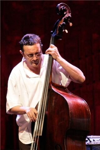 Javier Colina